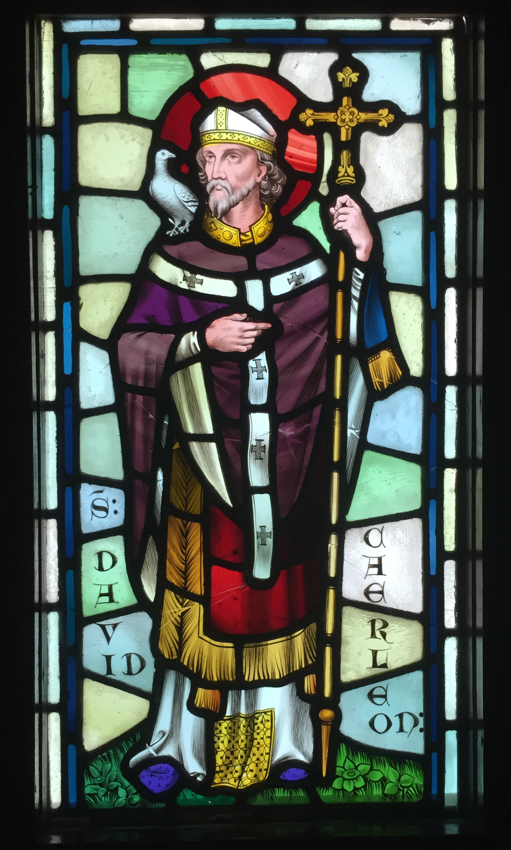 Stained glass chapel panel, originally designed by William Burges (2 December 1827 – 20 April 1881)